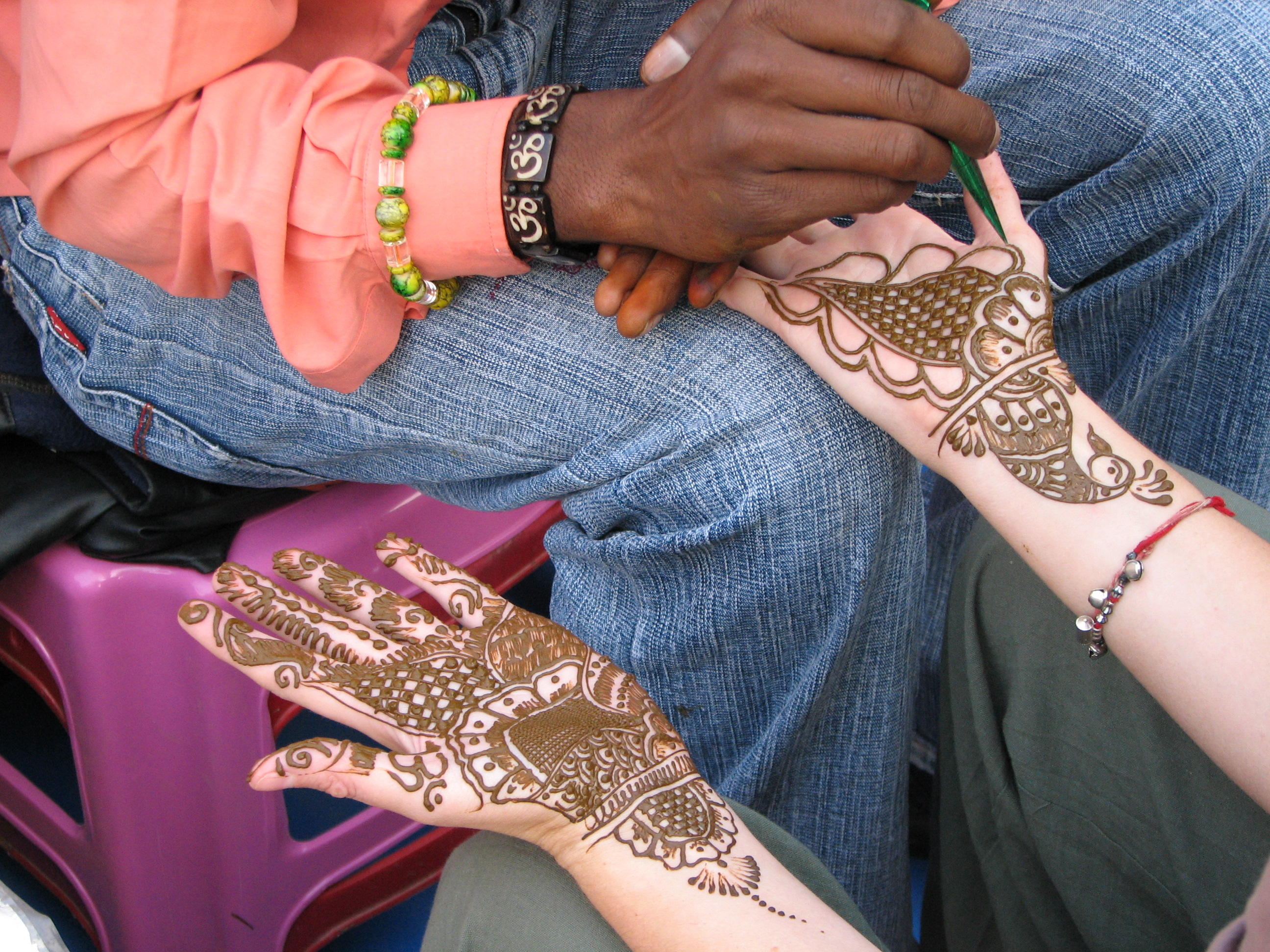 Devon getting henna tattoos on her hands. Her artisan was super-fast and percise. Some of the fine detail he managed was amazing.